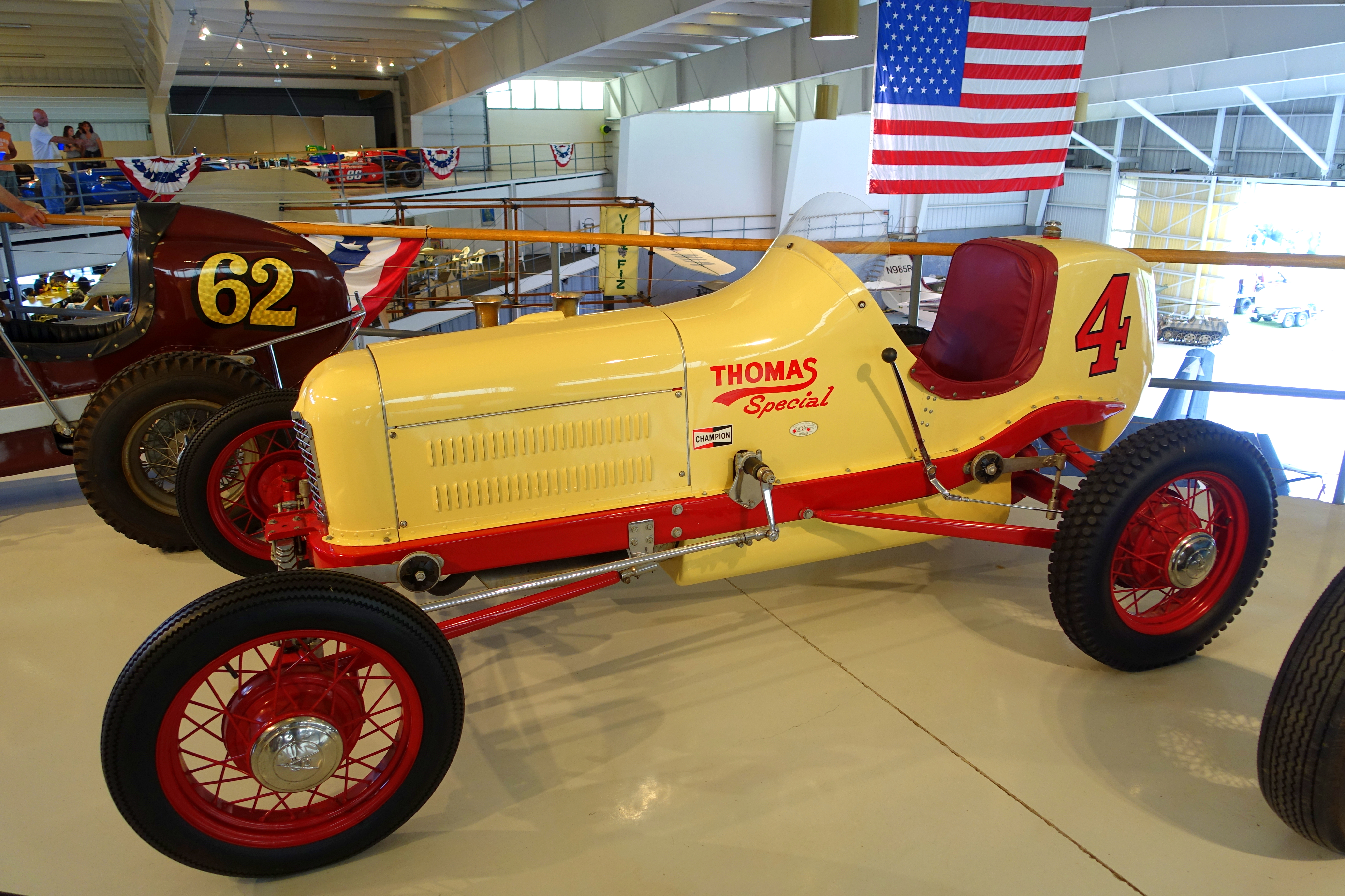 Exhibit in the Collings Foundation - Stow / Hudson, Massachusetts, USA.